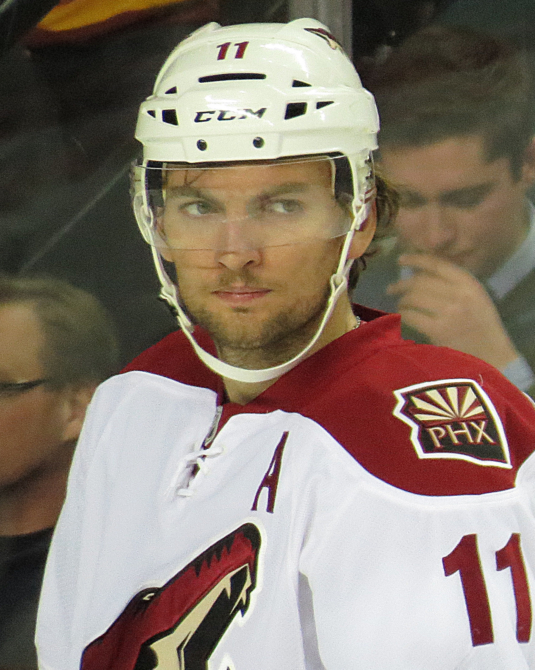 Hanzal with the Coyotes during the 2013-14 season.